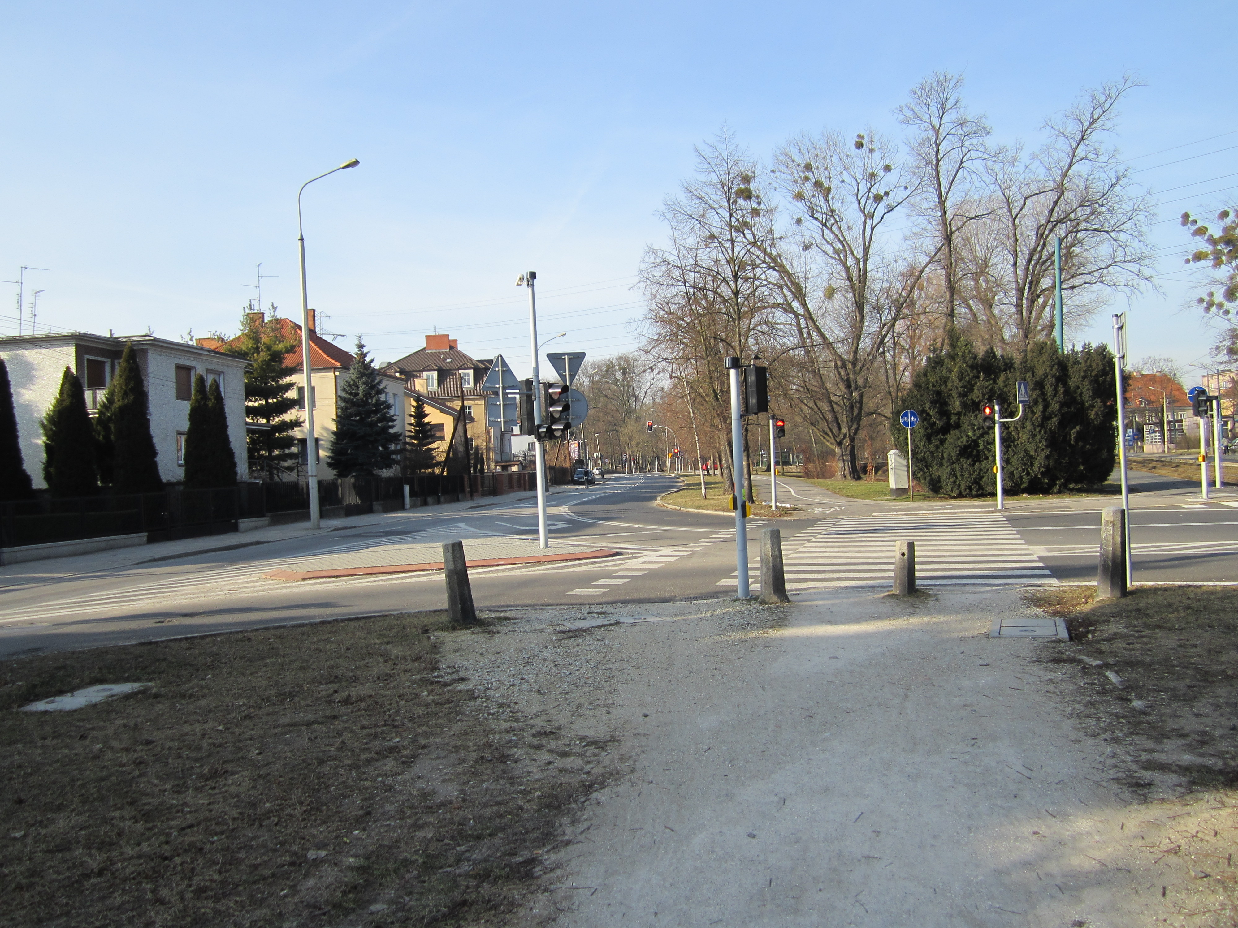 I get out of my house and we have the park Sołacki